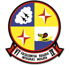 VT-4 logo, 2008